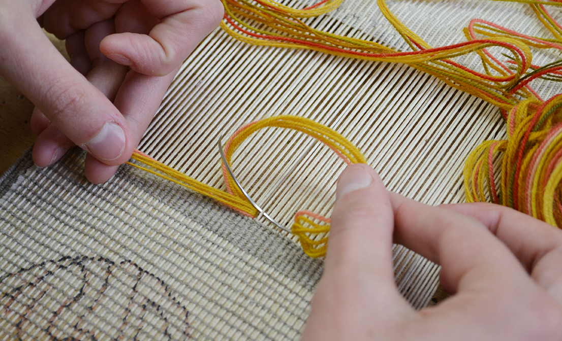 This media was taken during the workshop of the 21 September 2018 at the Mobilier national, supported by Wikimédia France. English | français | +/−